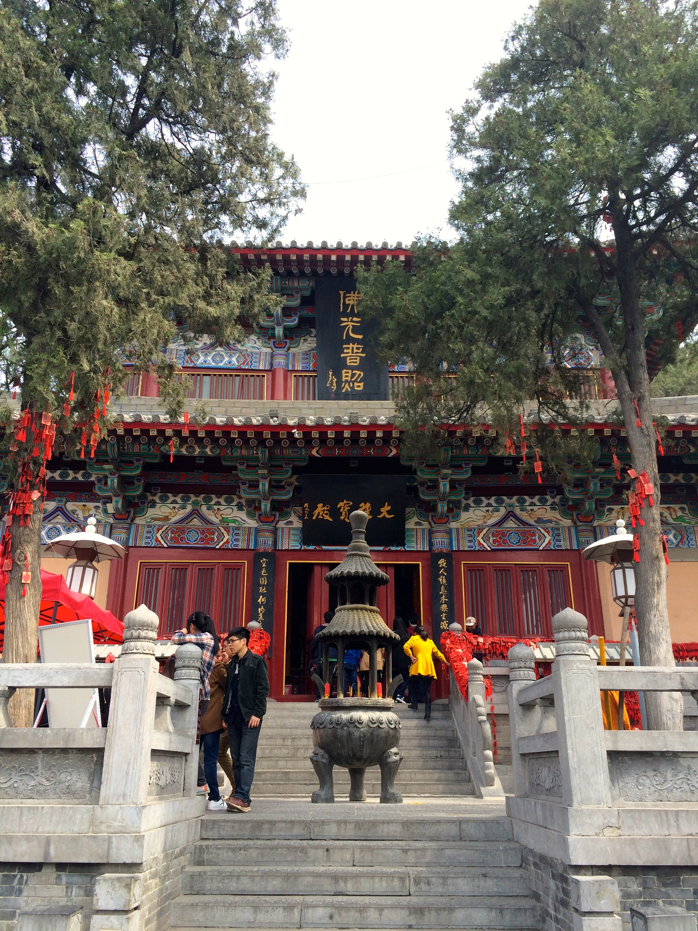 Xiangshan Temple at Longmen Grottoes, Luoyang, China